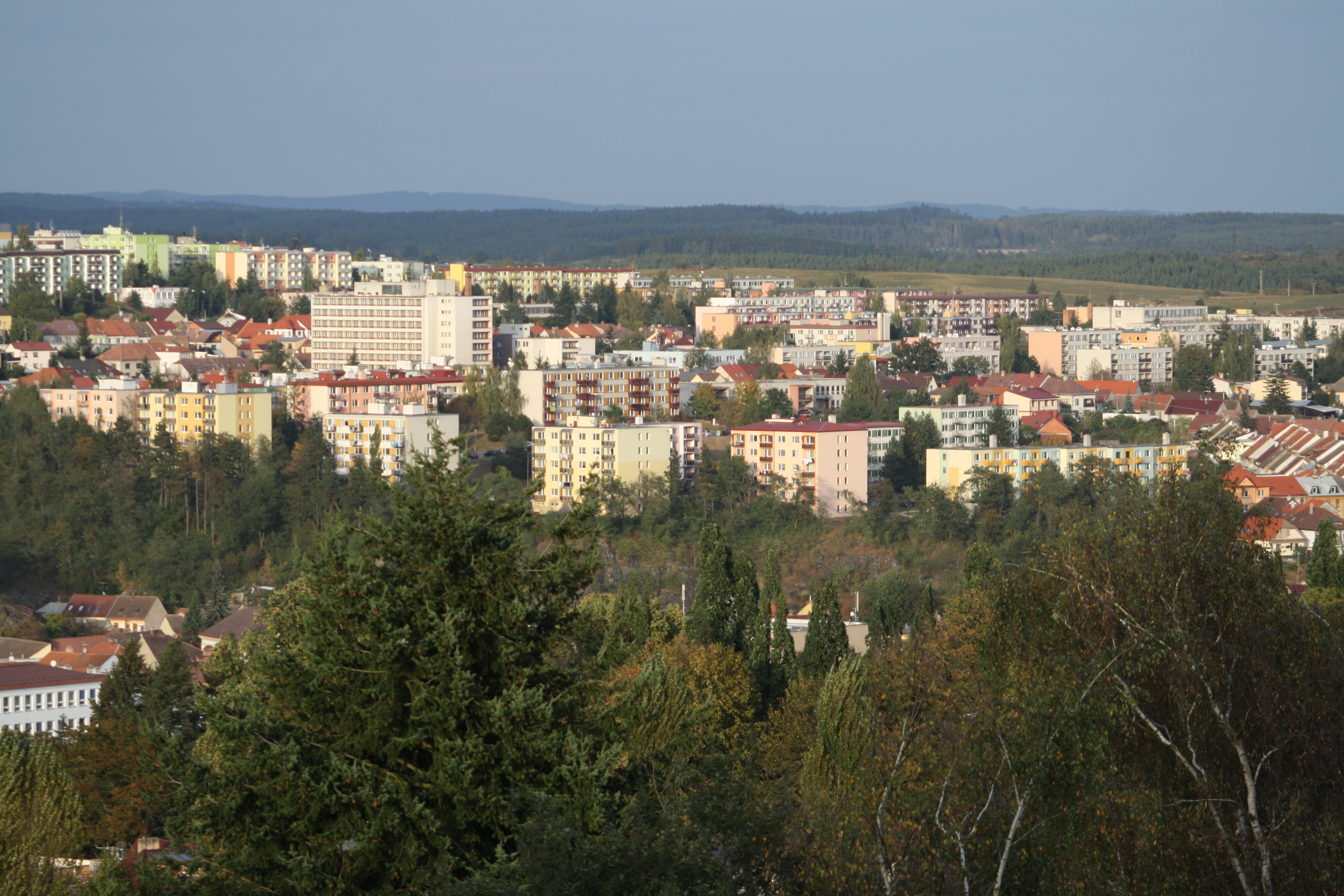 Blocks Marijánka in Třebíč, Czech Republic.